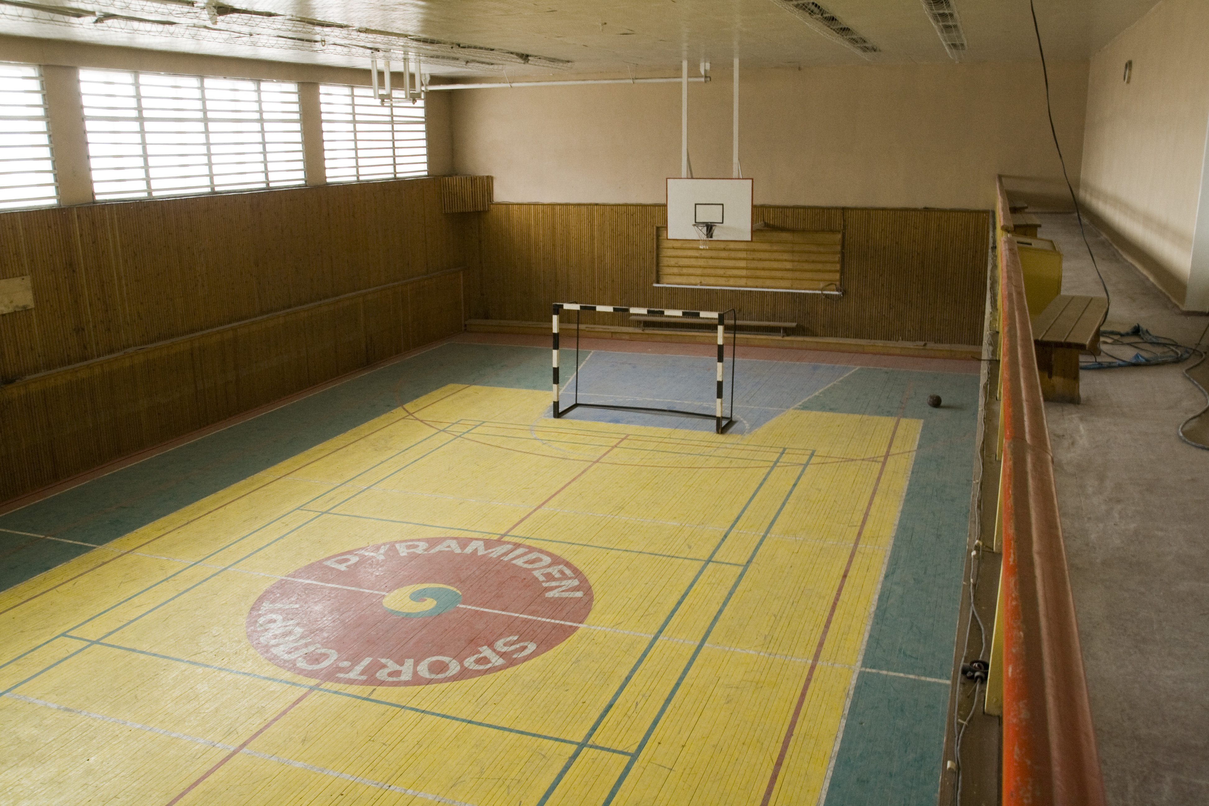 old sports center in Pyramiden, Svalbard